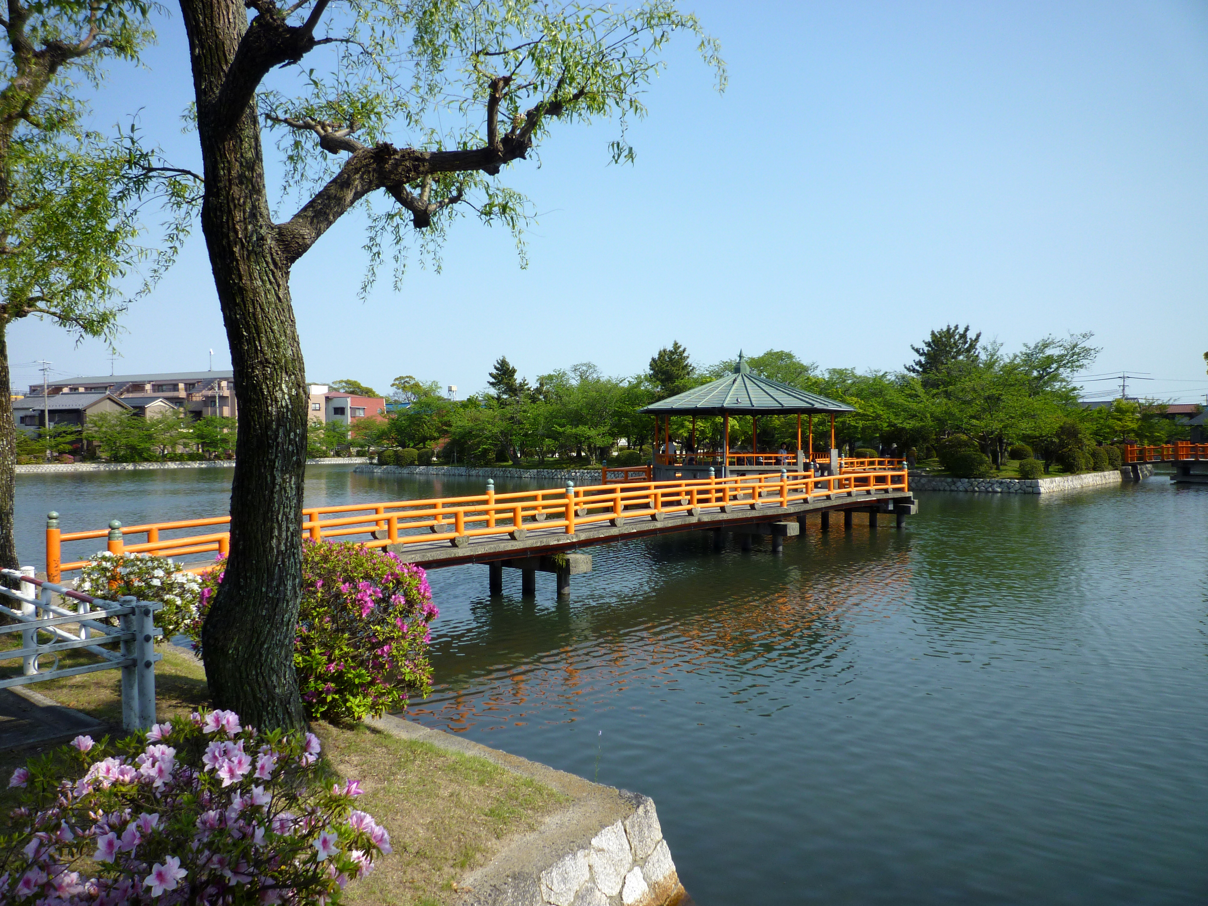 Kyūka Park in Kuwana, Mie, Japan